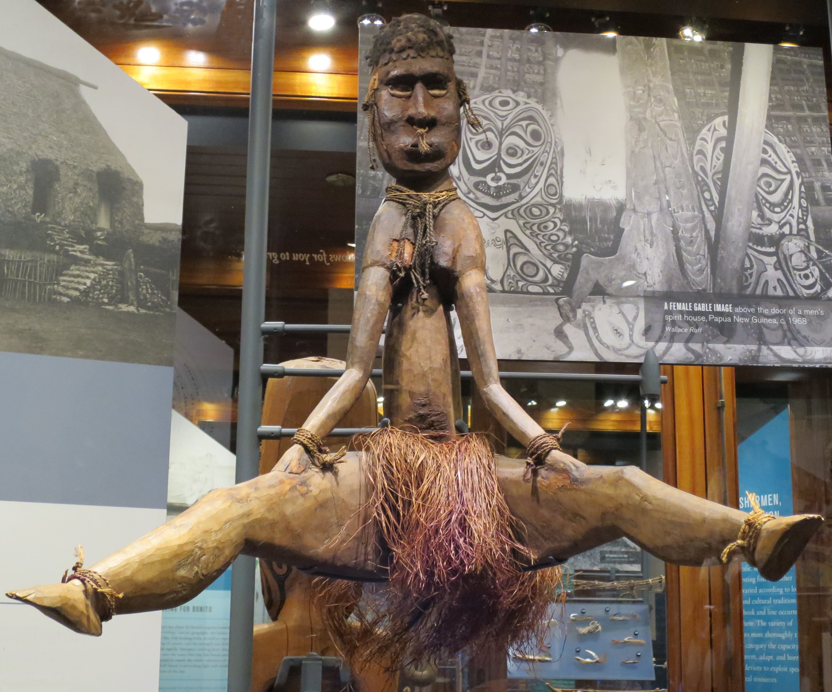 Female gable image, wood, raffia, shell, hair, dye, paint and clay, Sawos people, Nogosap Village, Middle Sepik, Papua New Guinea, Bishop Museum, accession 1989.400.358